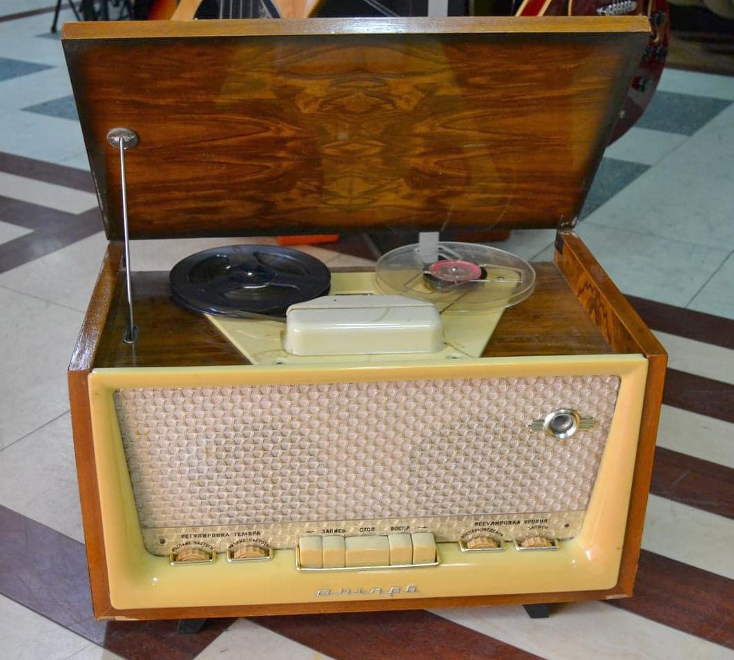 USSR (Ukraine) “Dnepr-11” tape recorder 1960